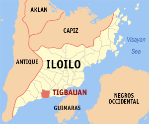 Map of Iloilo showing the location of Tigbauan